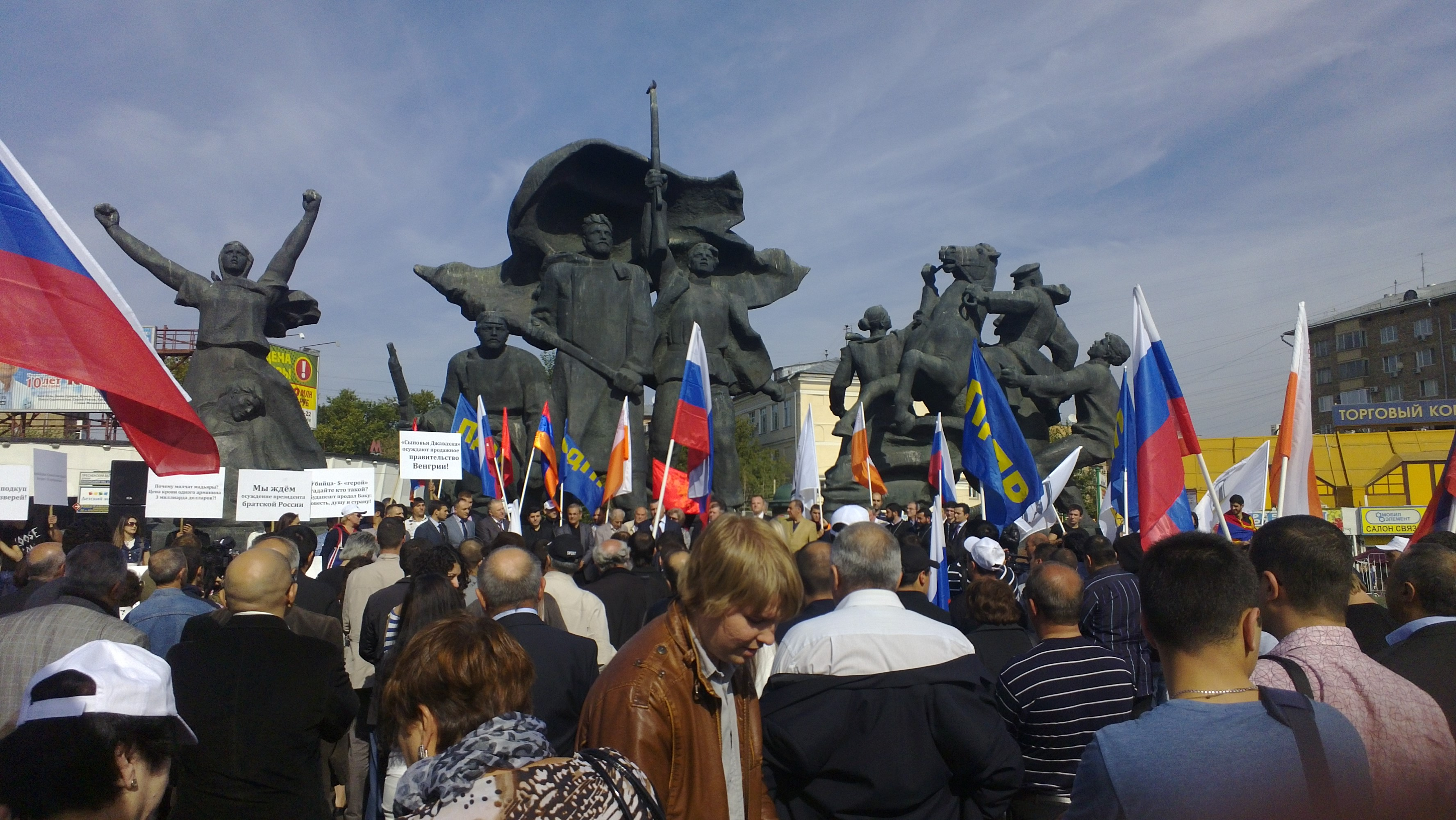 Demonstration against extradition and pardon of Ramil Safarov, Moscow, Russia, September 14 2012.